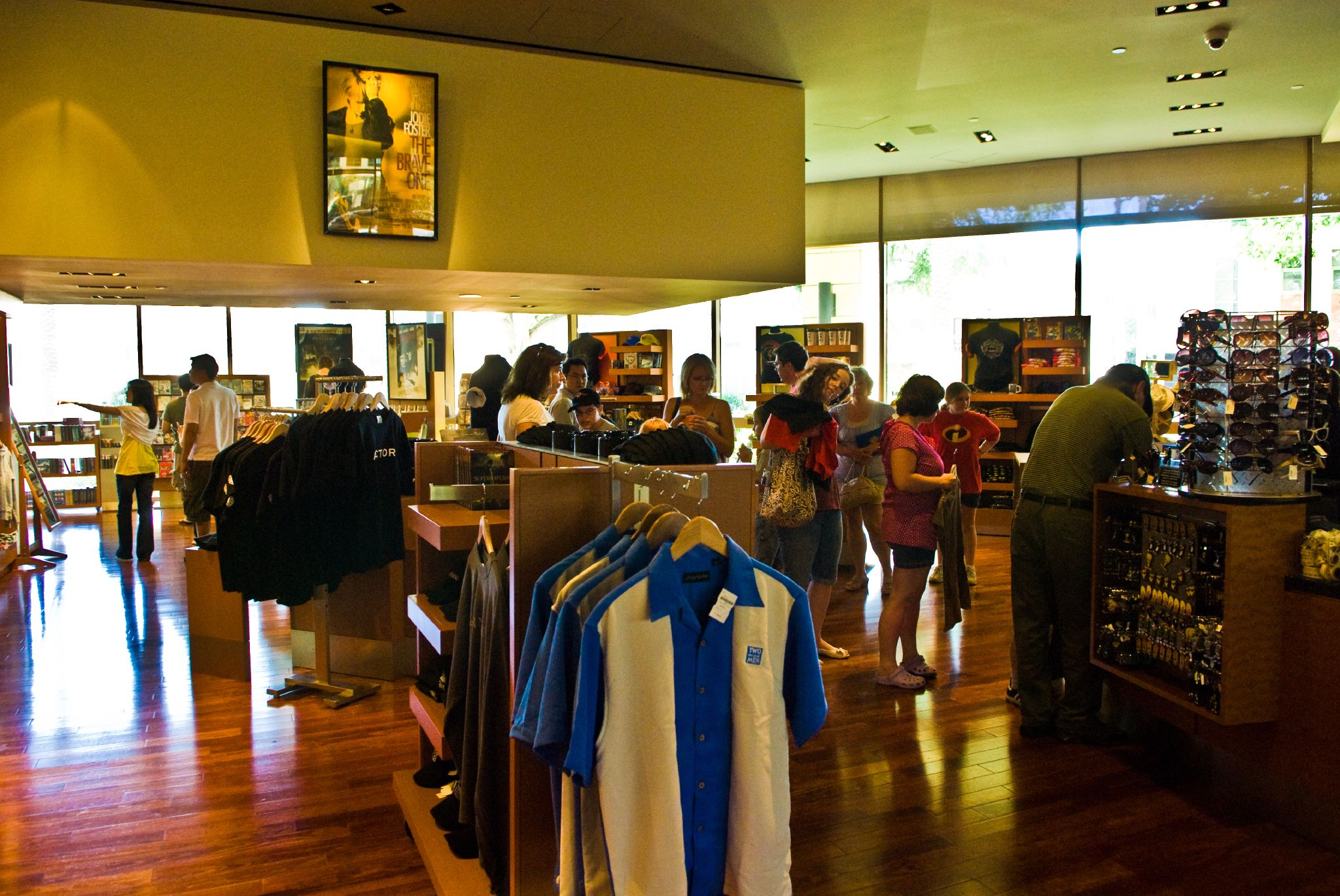 A store for the WB production studio